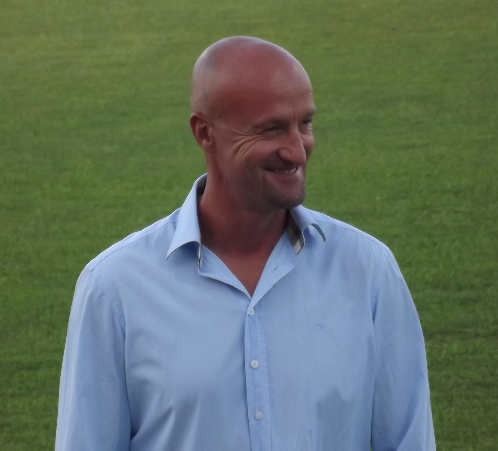 Marco Rossi italian football trainer